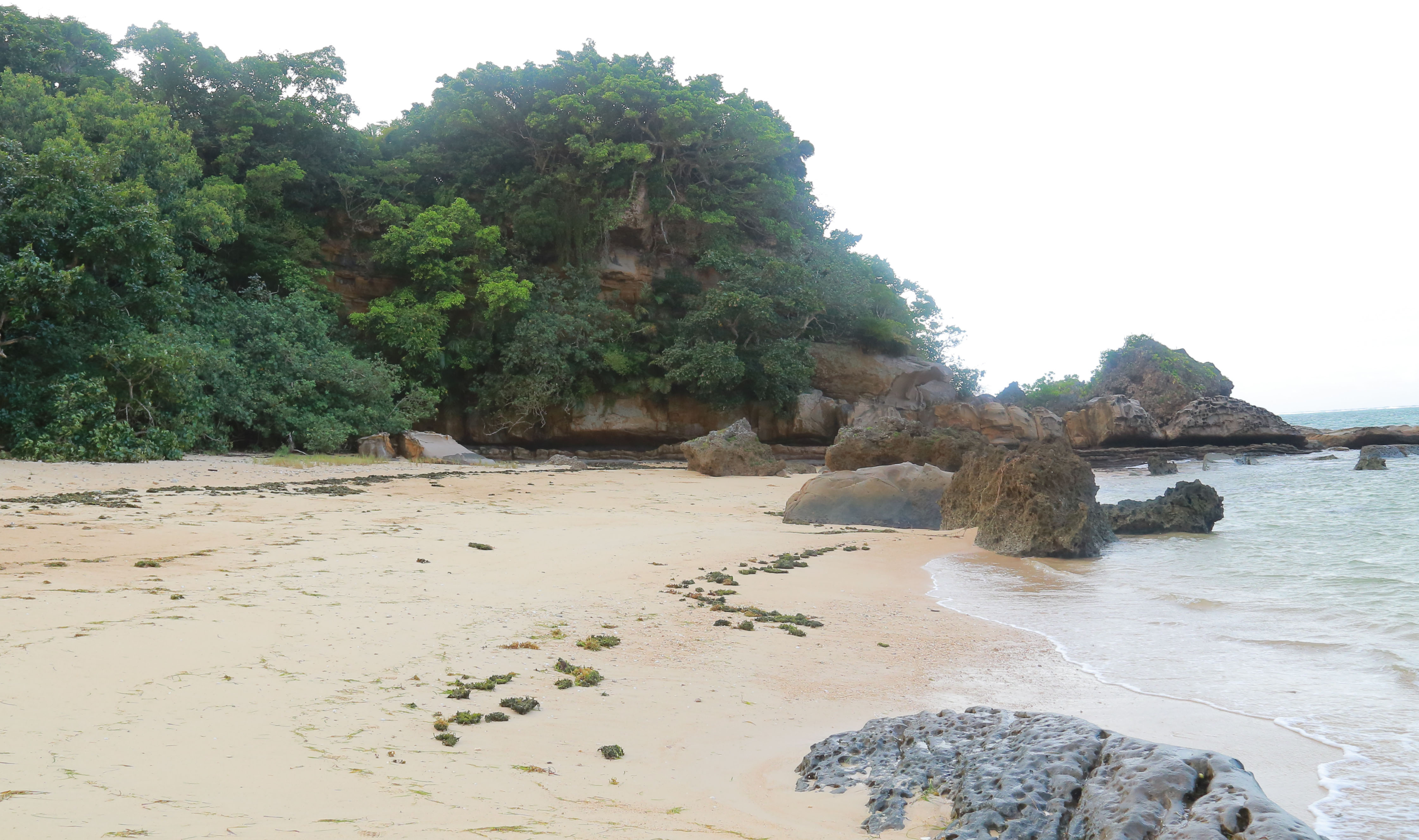 Haemida-no-hama, a beach in Iriomote Island, Taketomi Town, Okinawa Prefecture, Japan.